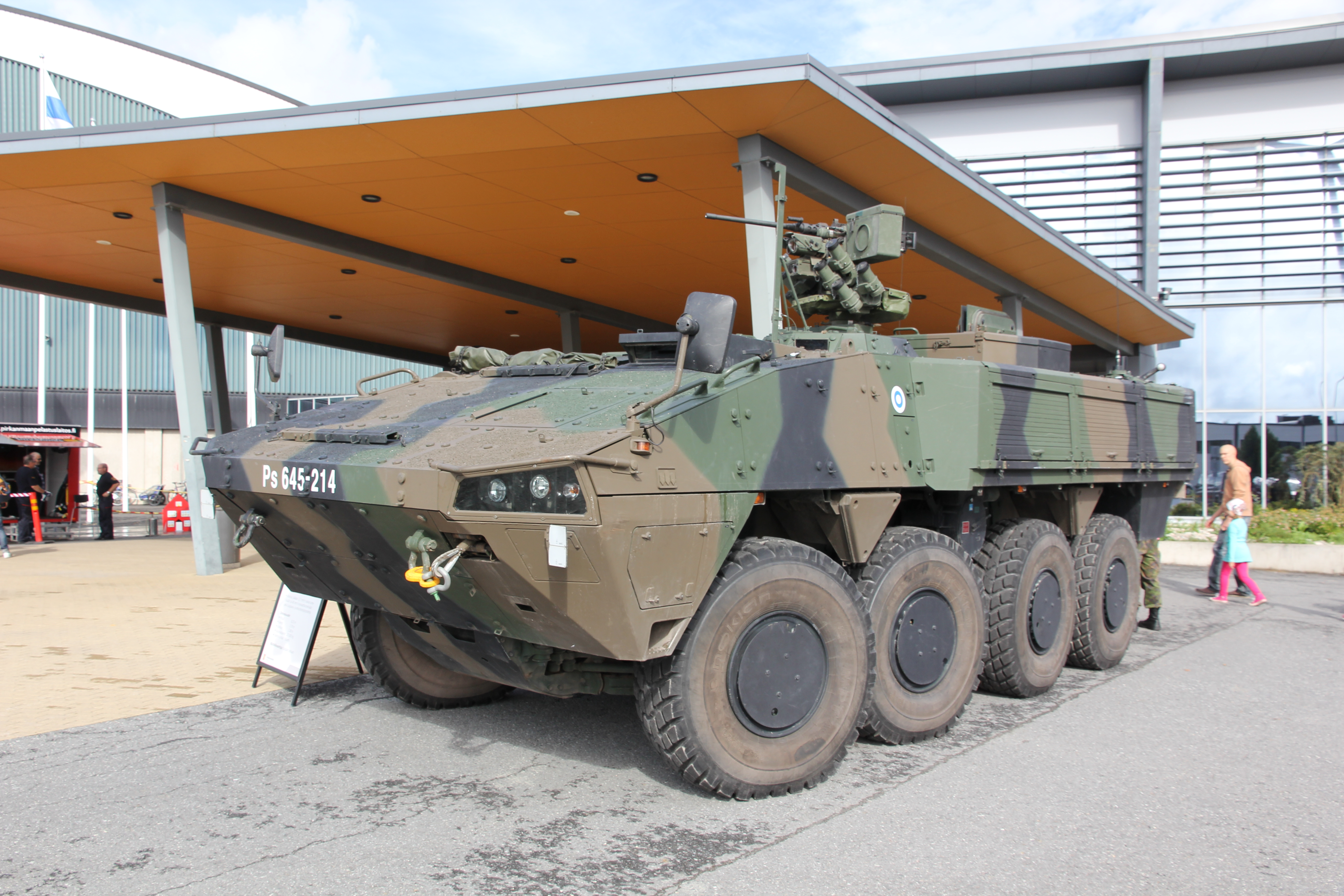 Finnish Patria AMV XA-360 armoured personnel carrier Ps 645-214 on display at Comprehensive security exhibition 2015 in Tampere.